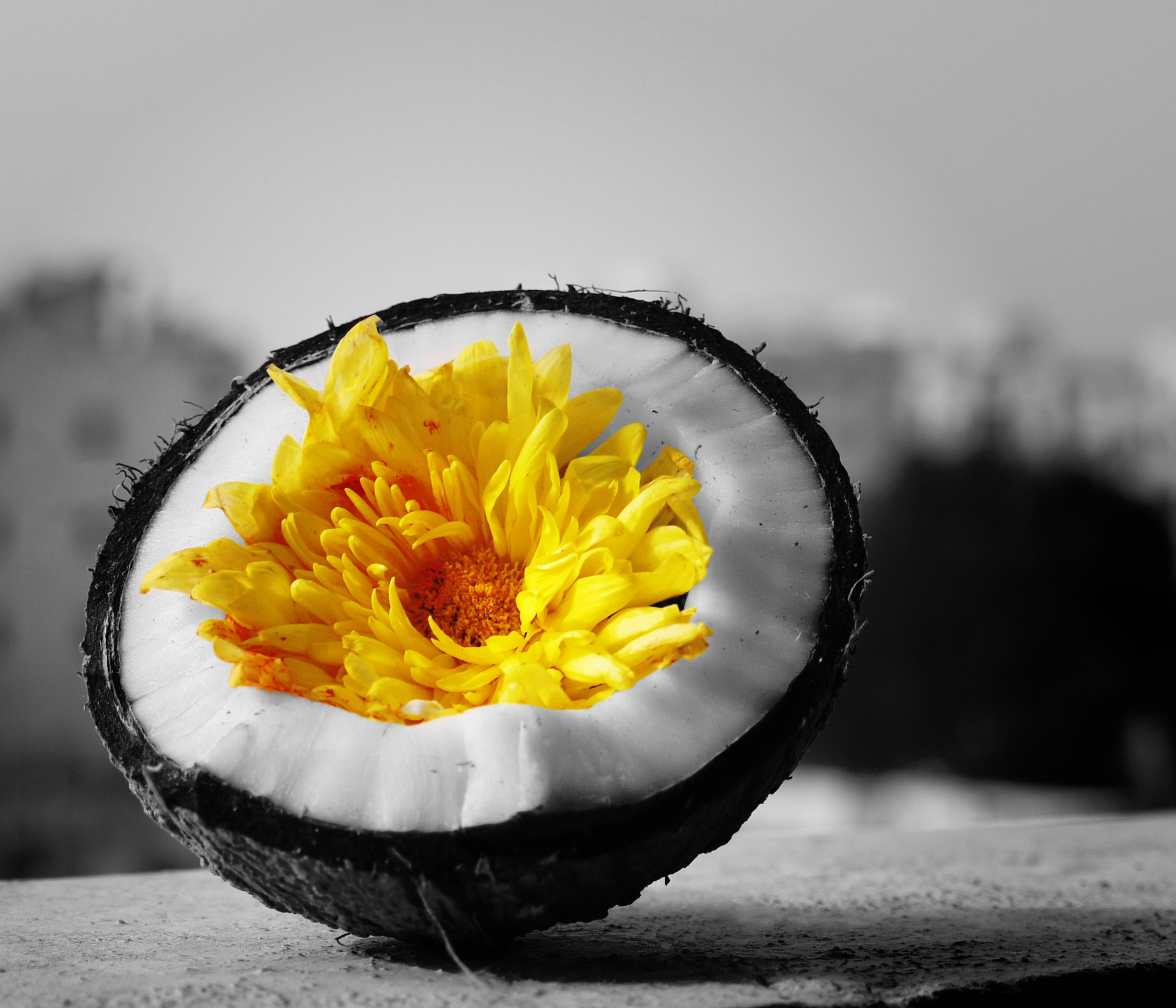 Hindu Temple decorations and offerings April 14, traditional Hindu new year, Puthandu, Vishu, Vaisakhi